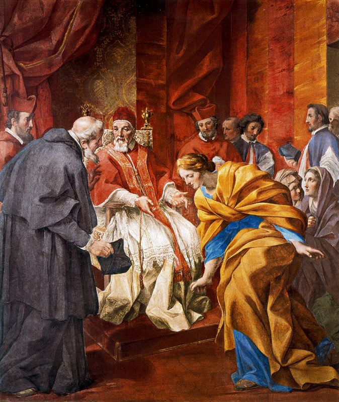 Giovanni Francesco Romanelli (1610-1662), The Meeting of the Countess Matilda and Anselm of Canterbury in the Presence of Pope Urban II (1637-1642), oil on canvas, Galleria dei Romanelli, the Vatican.